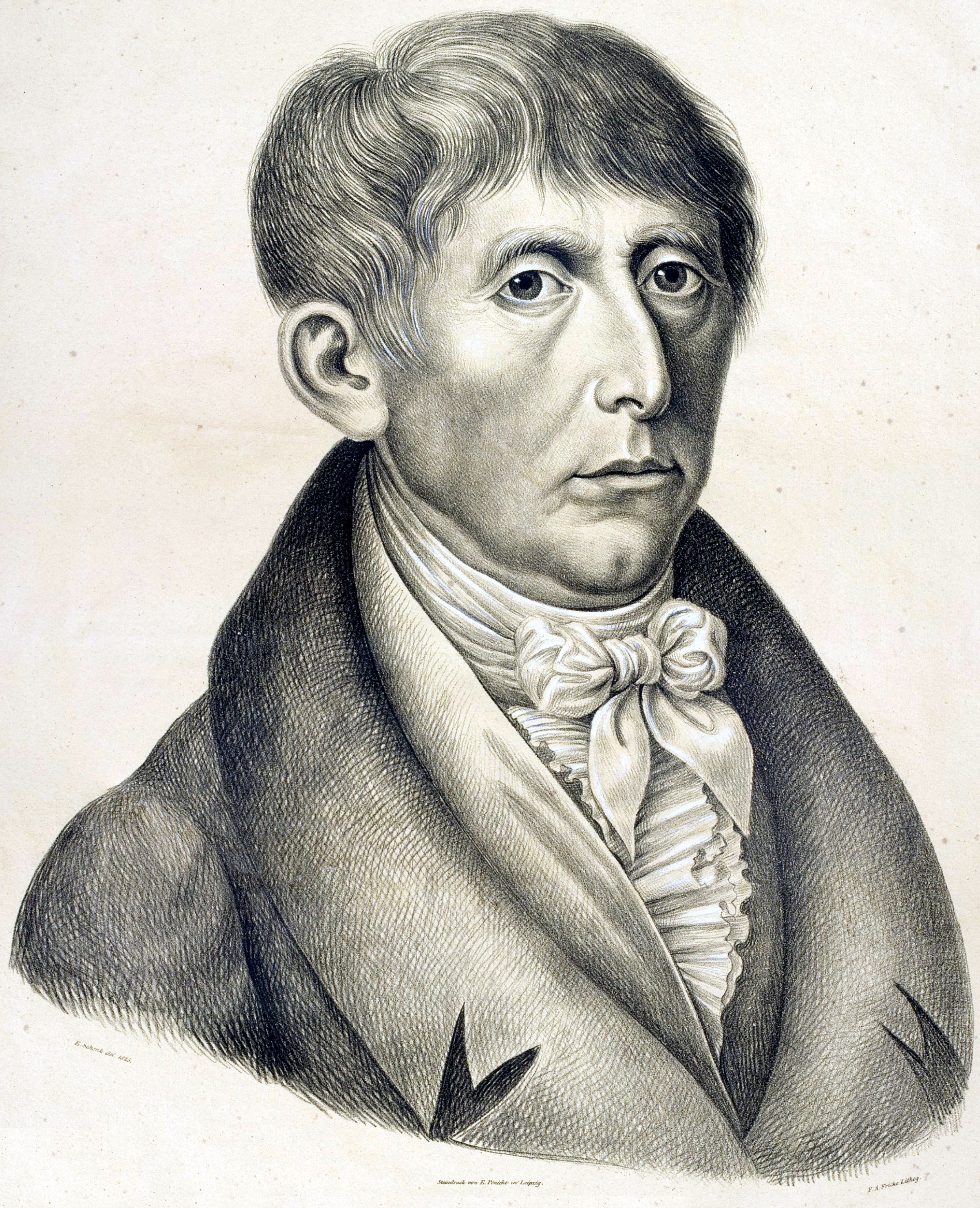 Christian Gottlieb Konopack (1767-1841) german legal Scholar